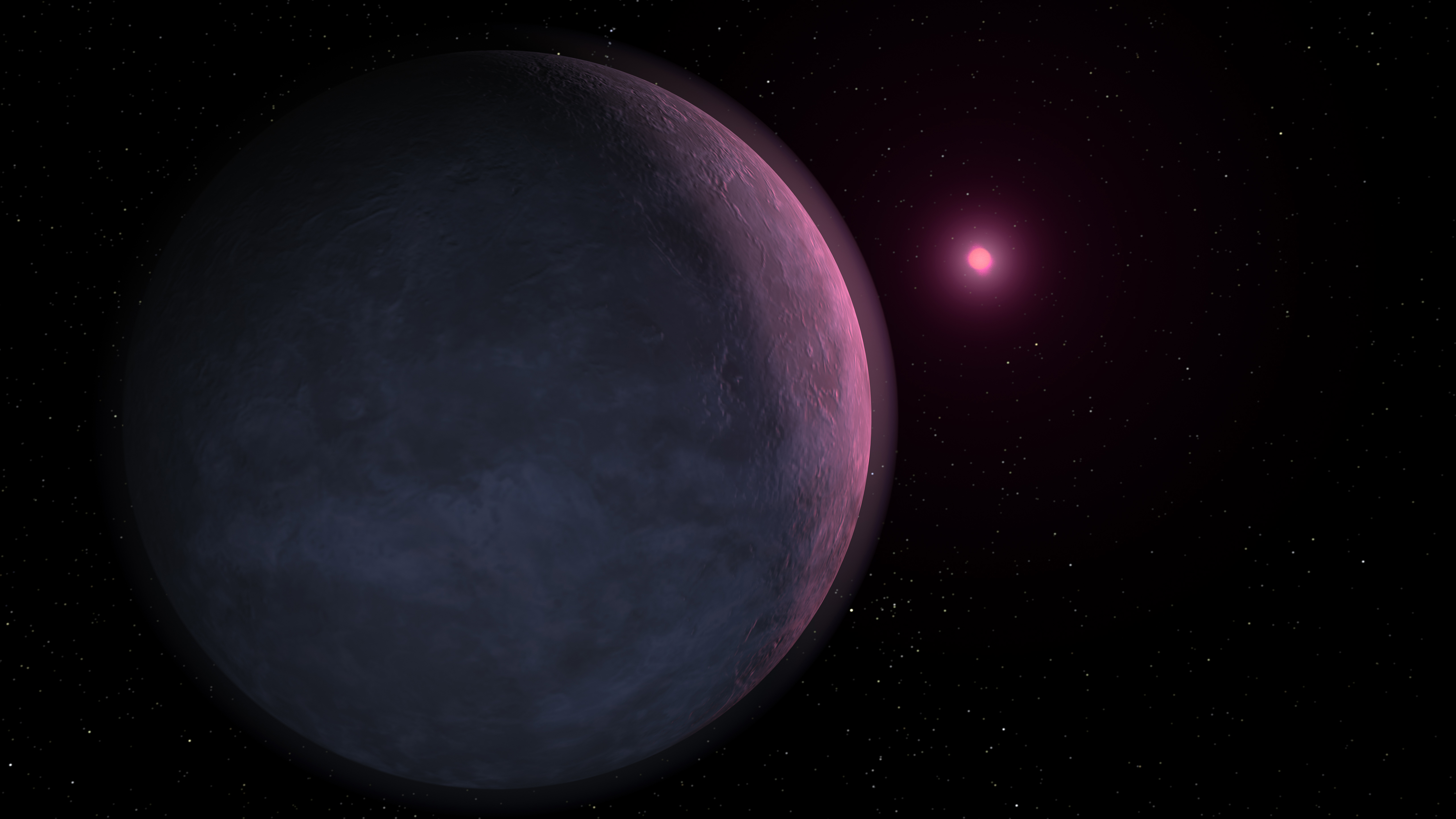 Artist's conception of the newly discovered planet MOA-2007-BLG-192L b orbiting a brown dwarf "star" with a mass of only 6 percent of that of the Sun. Theory suggests that the 3-Earth-mass planet is made primarily of rock and ice. Observational and theoretical studies of brown dwarfs reveal that they have a magenta color due to absorption by elements such as sodium and potassium in their atmospheres. If the host star has a mass of 9 percent of that of the Sun, at the other end of the margin of error for the new microlensing data, the star would be a red dwarf about 100 times brighter than the brown dwarf, but 1000 times fainter than the Sun.